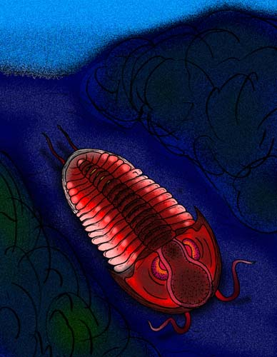 Reconstruction of the proetid trilobite, Endops yanagisamai, of Middle Permian Japan.